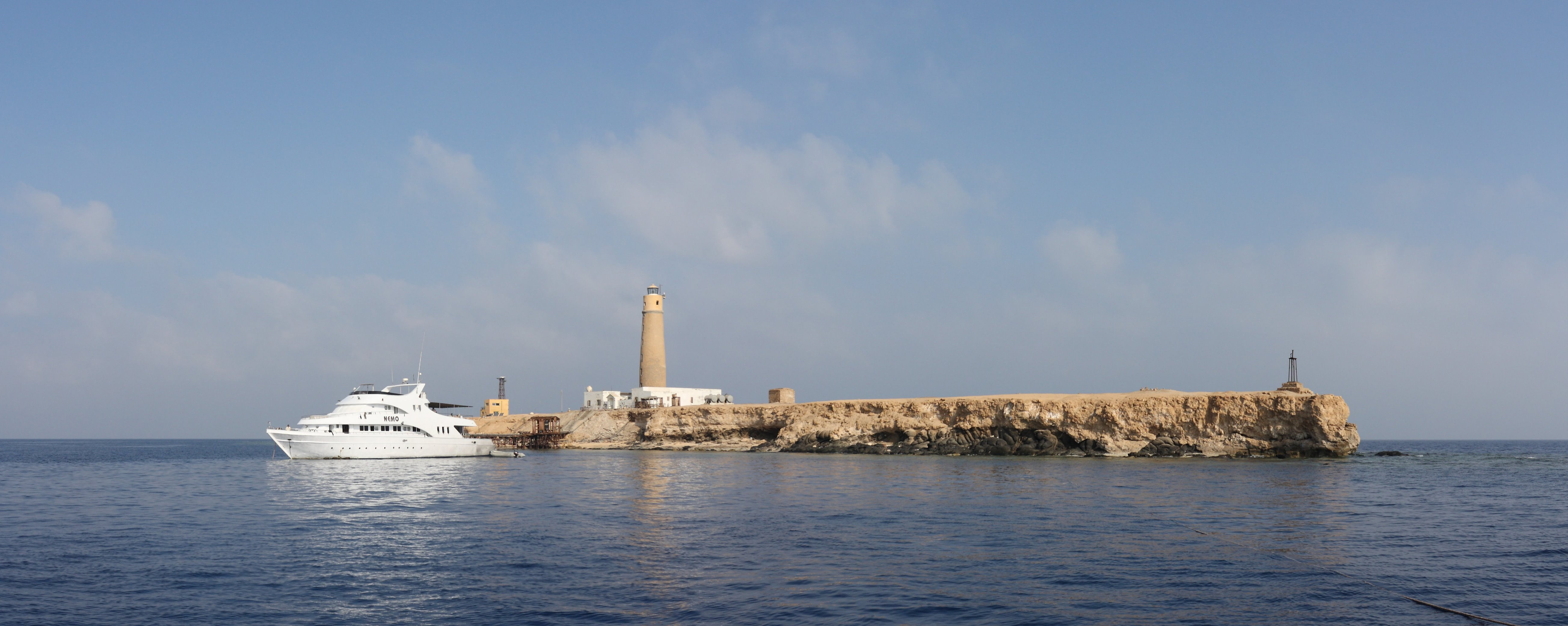 Panorama of the Big Brother Island in the Red Sea. Taken from the boat during dive safari. One can see the lighthouse and the boat Nemo anchored to the island.